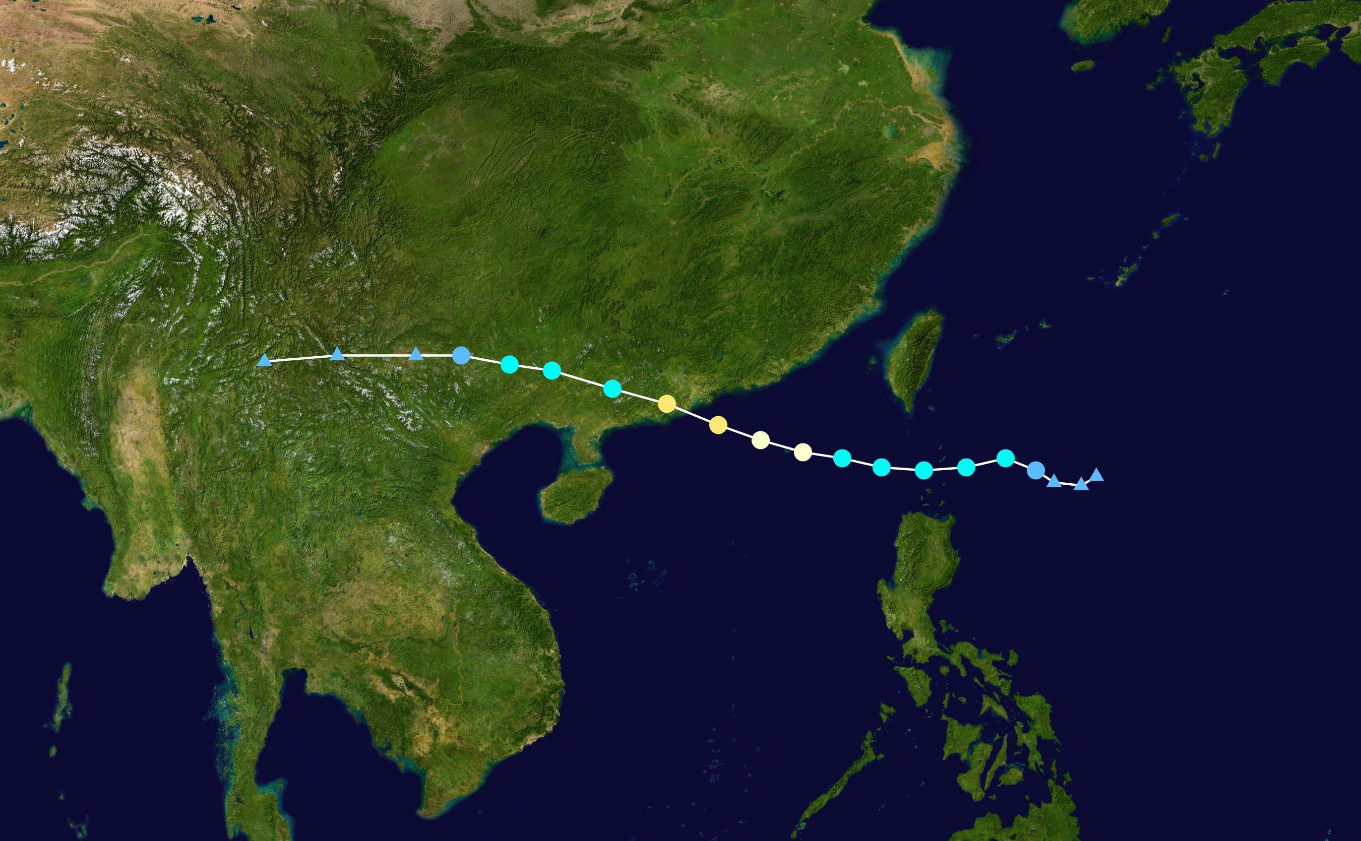 Track map of Typhoon Hato of the 2017 Pacific typhoon season. The points show the location of the storm at 6-hour intervals. The colour represents the storm's maximum sustained wind speeds as classified in the Saffir–Simpson scale (see below), and the shape of the data points represent the nature of the storm, according to the legend below. Saffir–Simpson scale Tropical depression≤38 mph≤62 km/h Category 3111–129 mph178–208 km/h Tropical storm39–73 mph63–118 km/h Category 4130–156 mph209–251 km/h Category 174–95 mph119–153 km/h Category 5≥157 mph≥252 km/h Category 296–110 mph154–177 km/h Unknown Storm type Tropical cyclone Subtropical cyclone Extratropical cyclone / Remnant low / Tropical disturbance / Monsoon depression